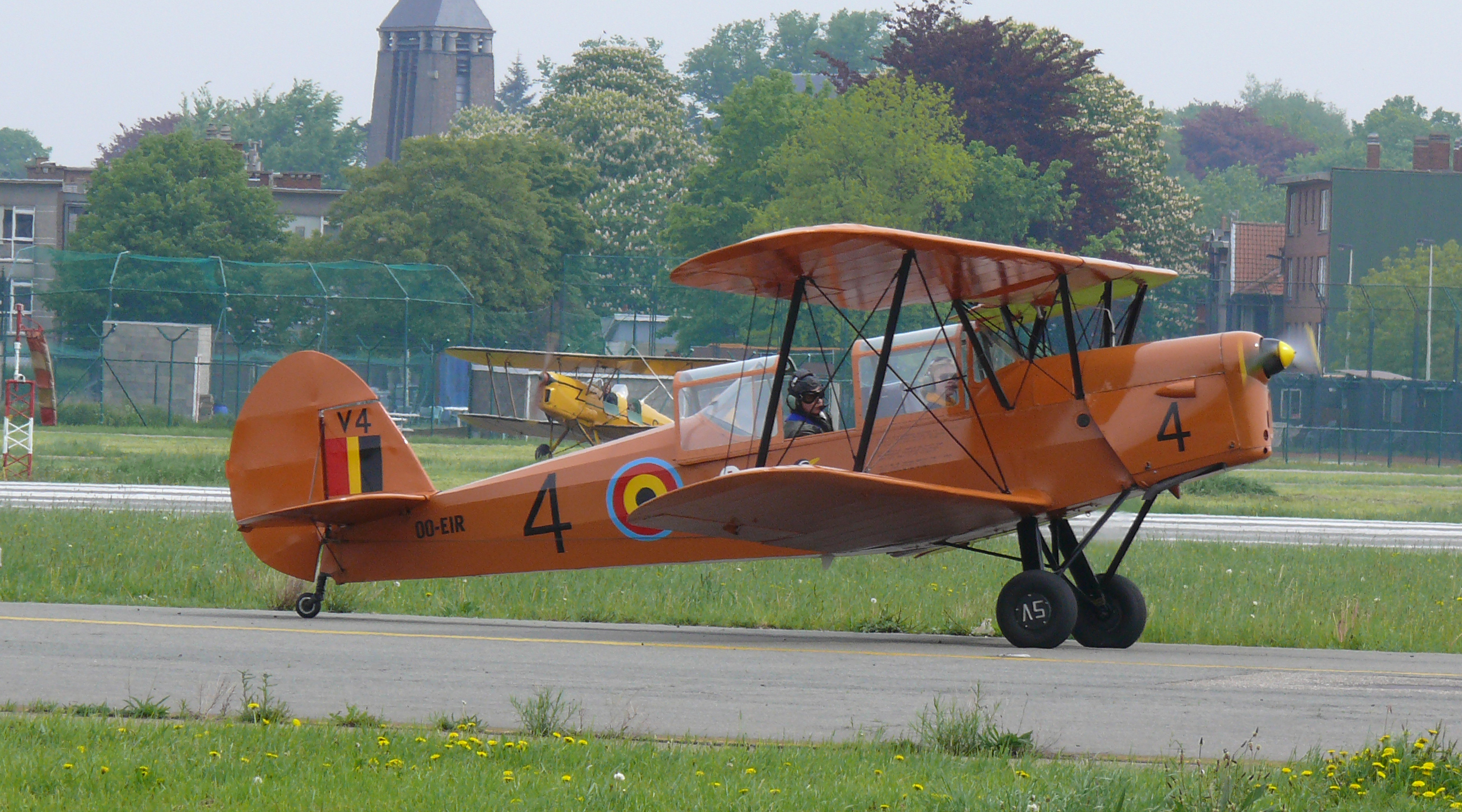 Stampe en Vertongen SV.4B (OO-EIR) during the stampe Fly-in 2010. Built in 1948, this is the first of 65 SV.4B's delivered to the Belgian Air Force.